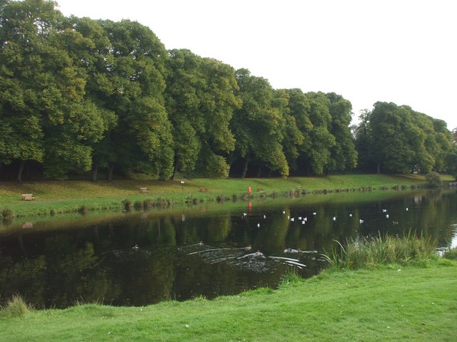 Lake at Callendar House